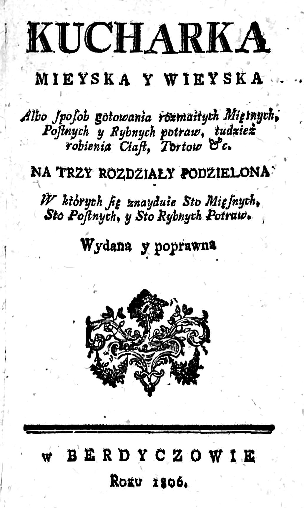 Title page of the Polish cookbook Kucharka mieyska i wieyska ("Urban and Rural Cook") published in 1806